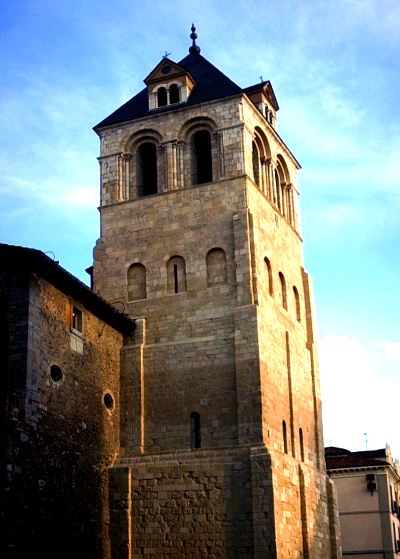 This tower is part of the León's Wall (San Isidoro's Basilica)